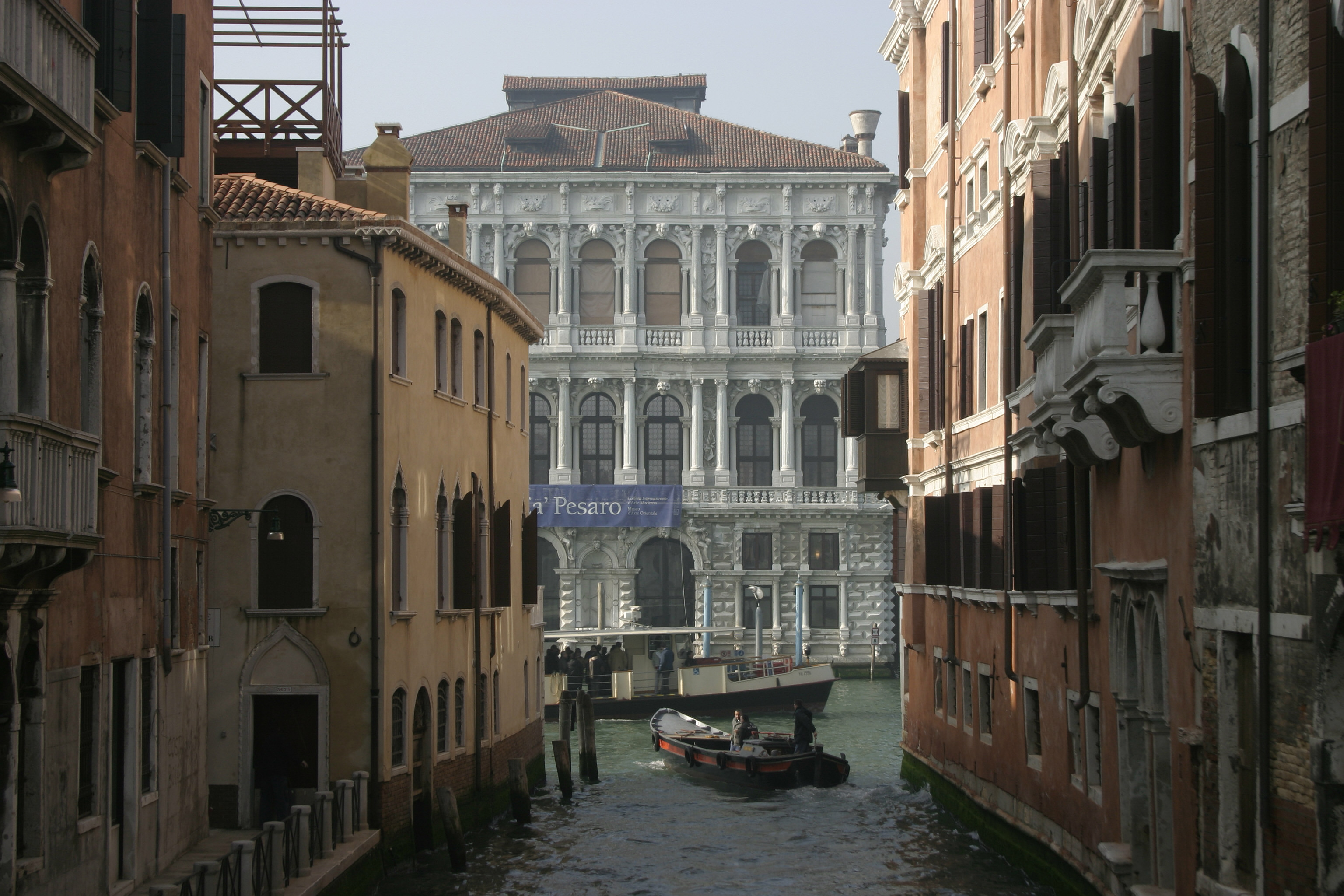 Venice – A canal, with Ca' PesaroPalace on the background